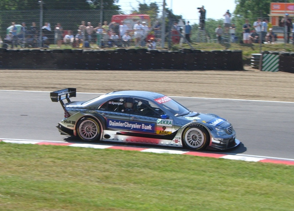 Bruno Spengler at Druids Hairpin, Brands Hatch DTm race 2006